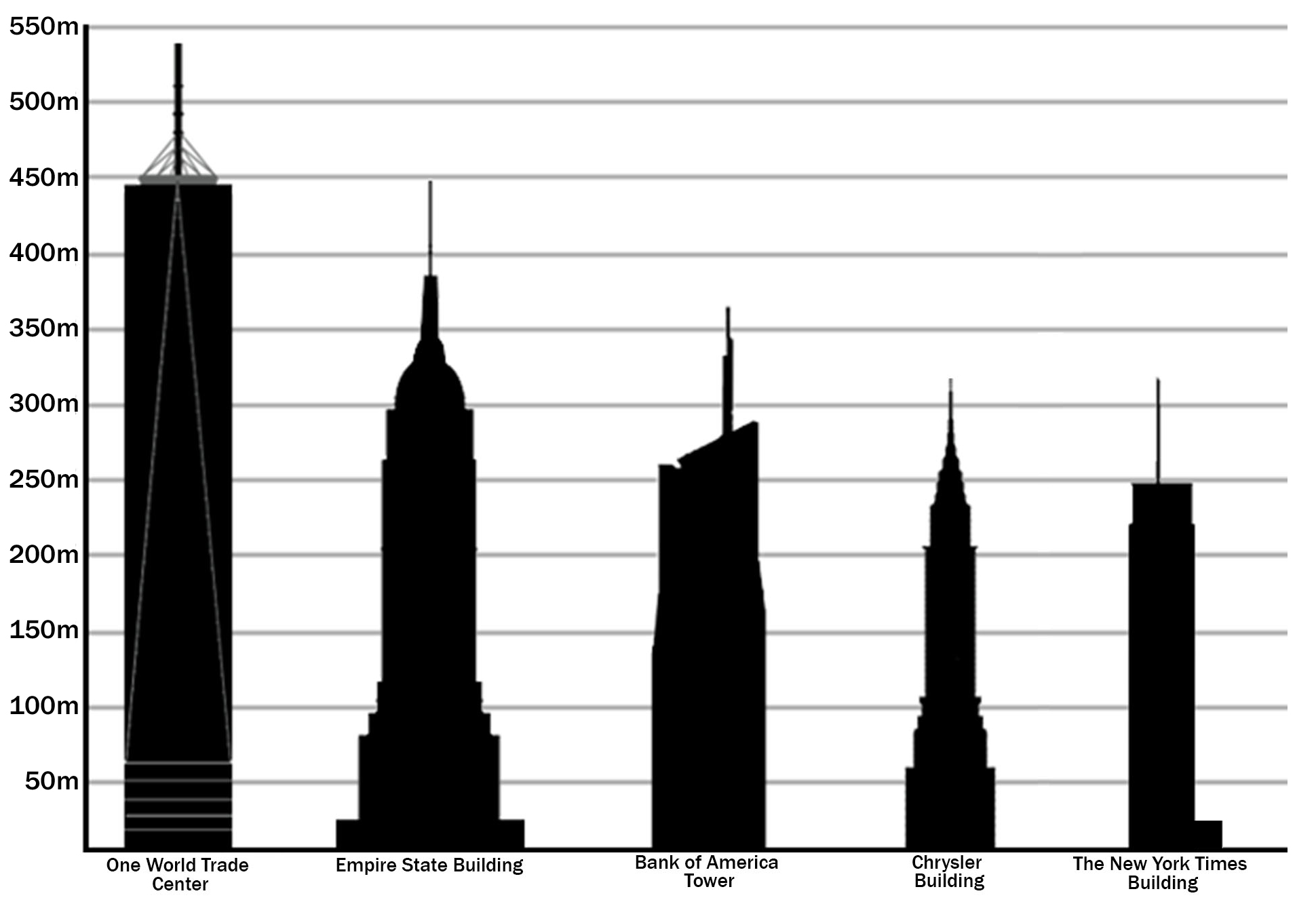 These are the tallest buildings in New York